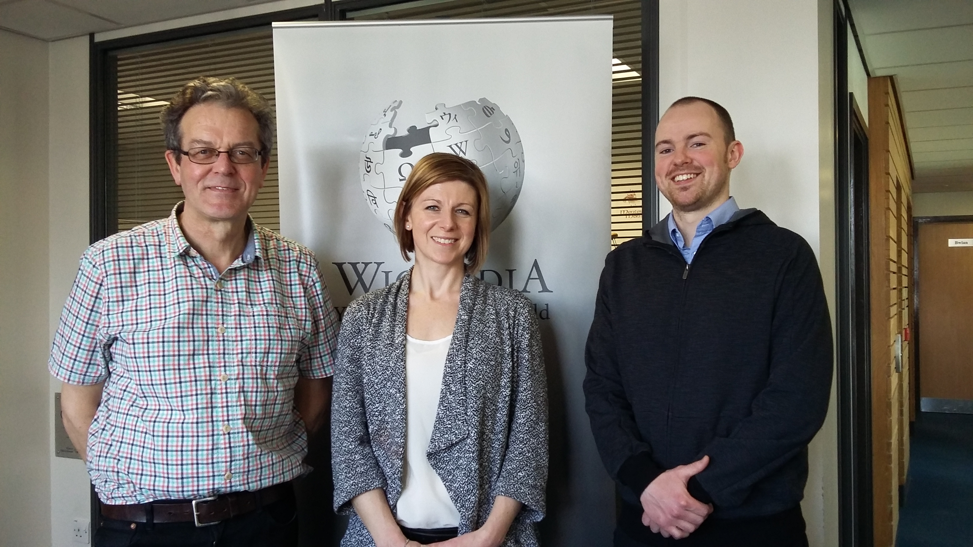 On the right: Robin Owain, Wikimedia UK (Wales) with Helen Thomas, Menter Iaith Môn and newly appointed Aaron Morris, Wici Môn Project Manager; Llangefni, Wales. March 2017.